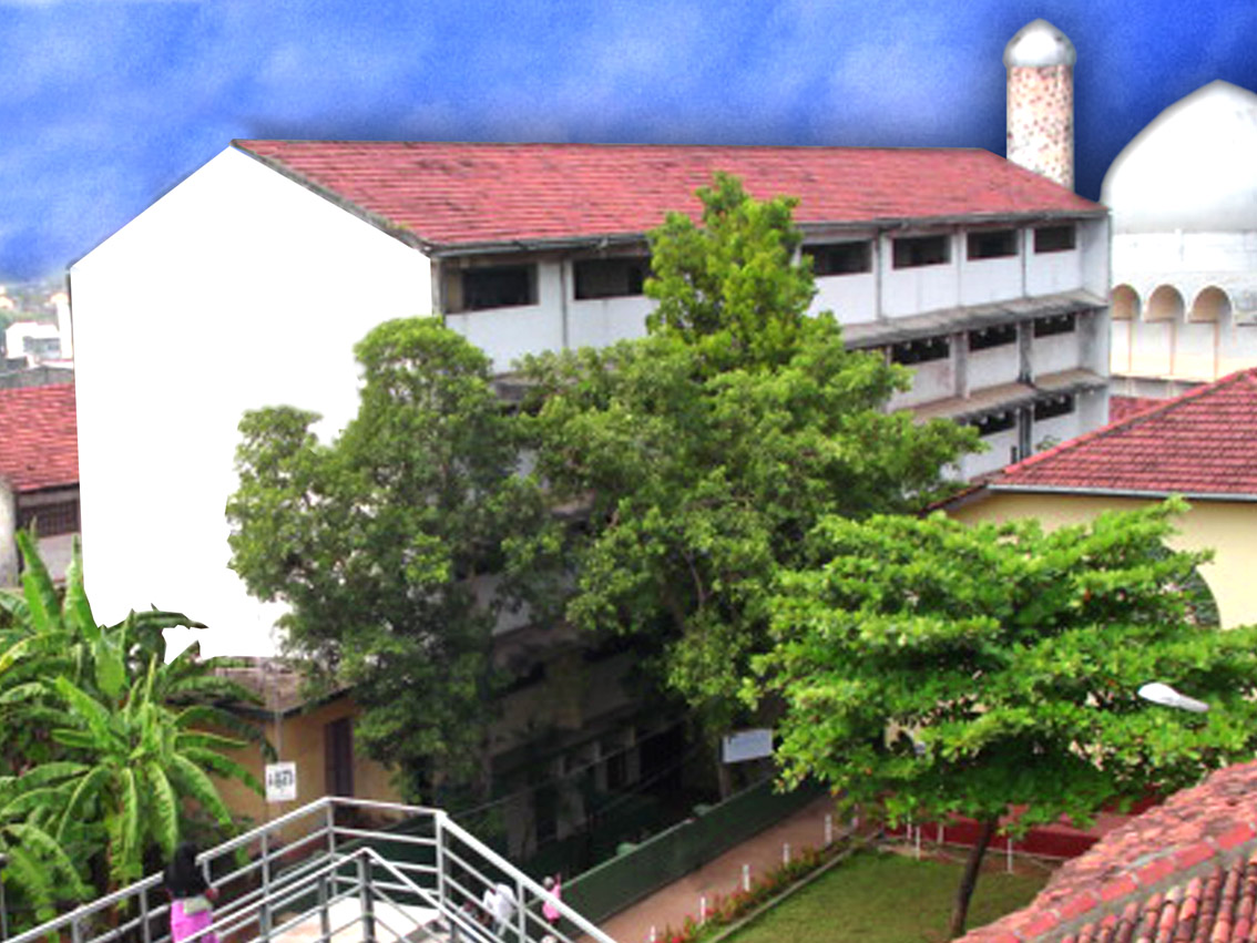 This is the top angle view of the Senior Section of Hameed Al Husseinie College, Colombo 12, Sri Lanka